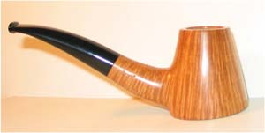 Handmade pipe from bruyere